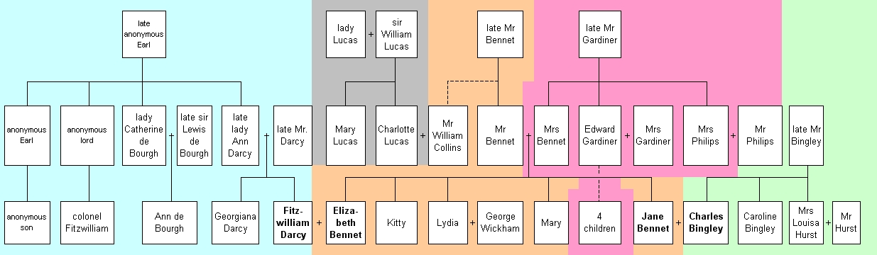 Pride and Prejudice - family tree EN by shakko